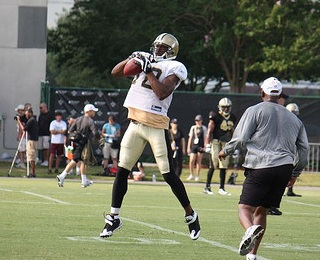 Marques Colston practices at training camp in August 2009.